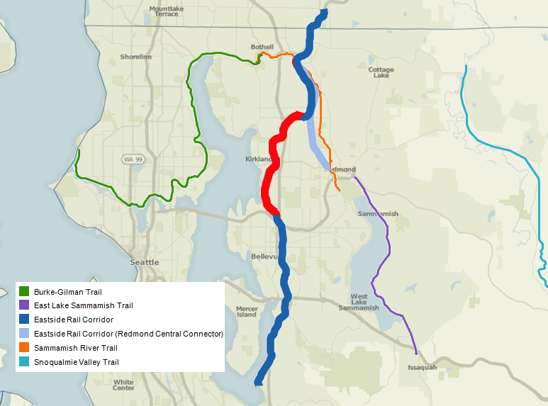 Route of the Cross Kirkland Corridor rail trail in Kirkland, Washington. From Eastside_Rail_Corridor.png